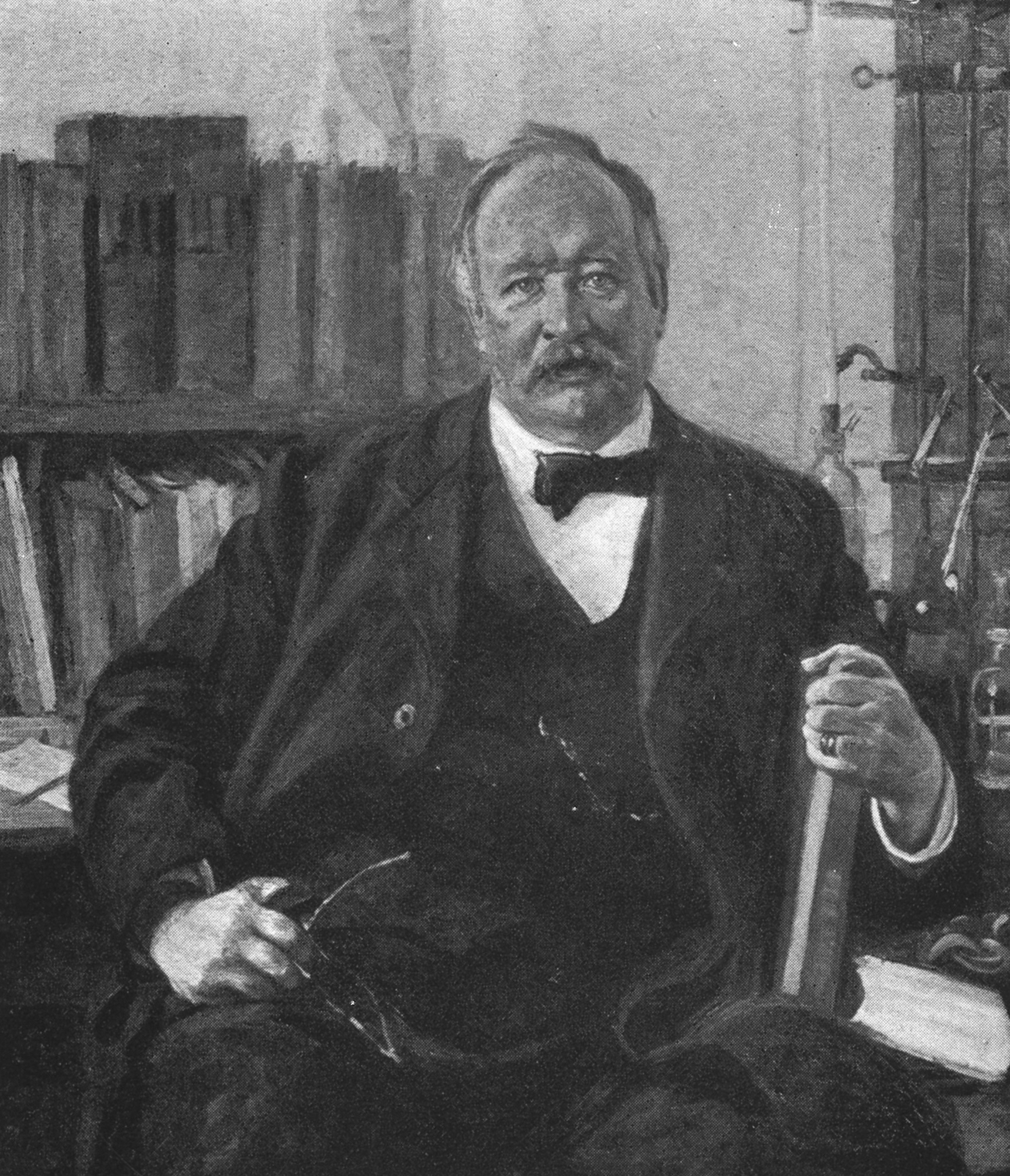 Svante Arrhenius (1859-1927), Swdish physicist, chemist and Nobel laureate.